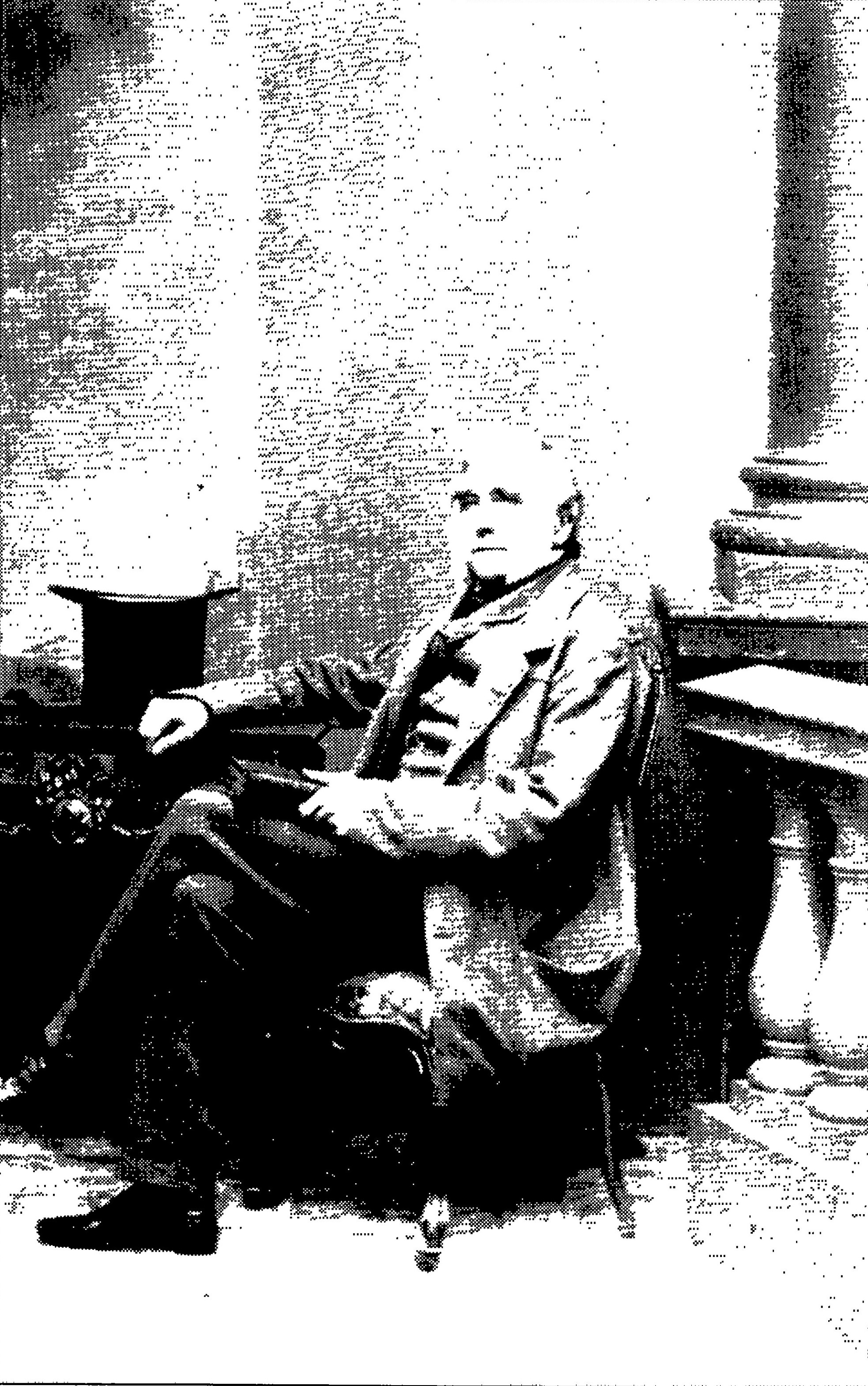 A portrait of Joshua Edward Cooper in old age.